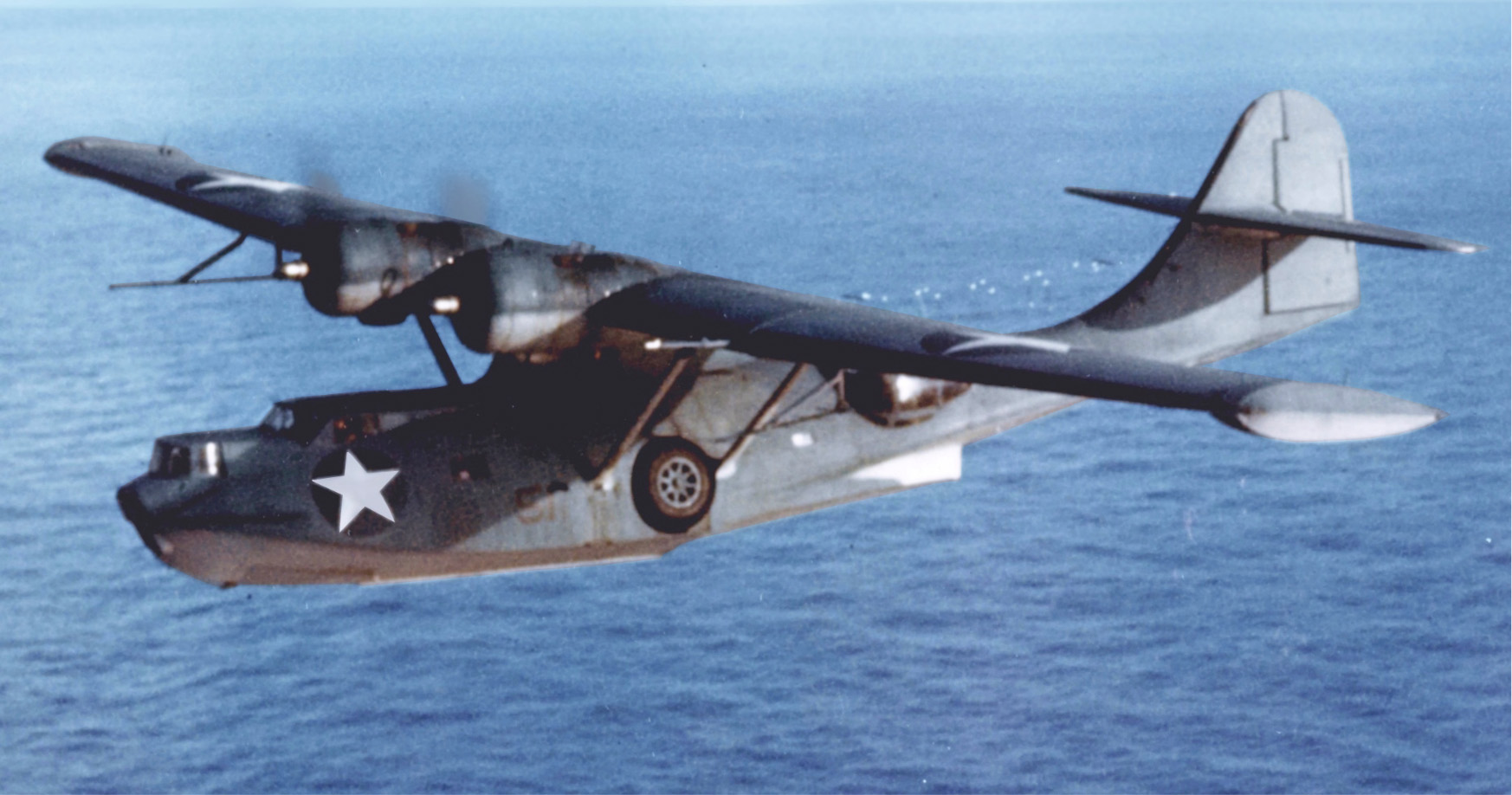 Consolidated PBY-5A Catalina in flight